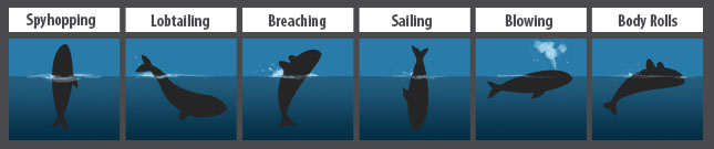 6 Common behaviors of the Southern Right Whale